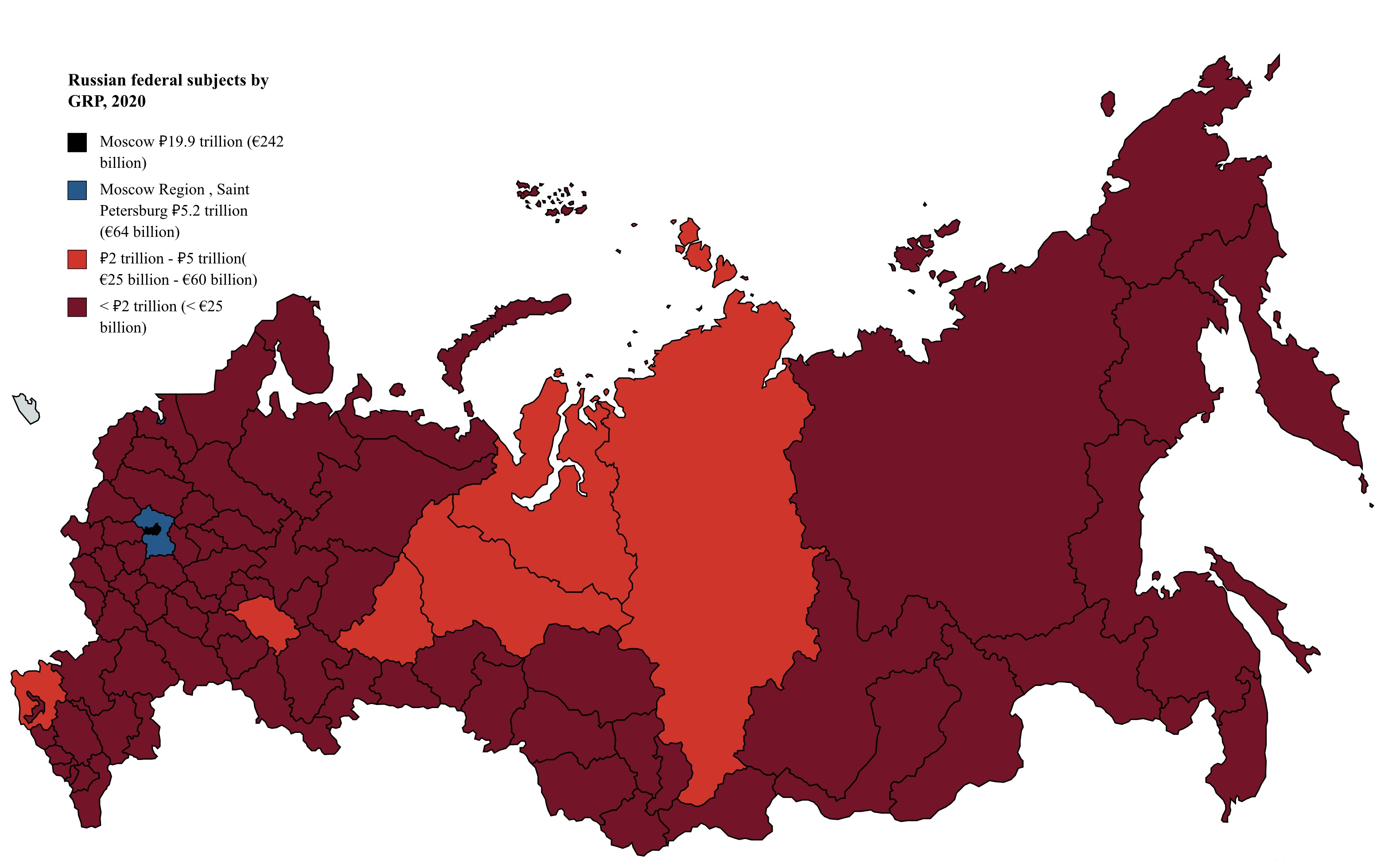 Federal subjects of Russia by GDP(nominal), 2016